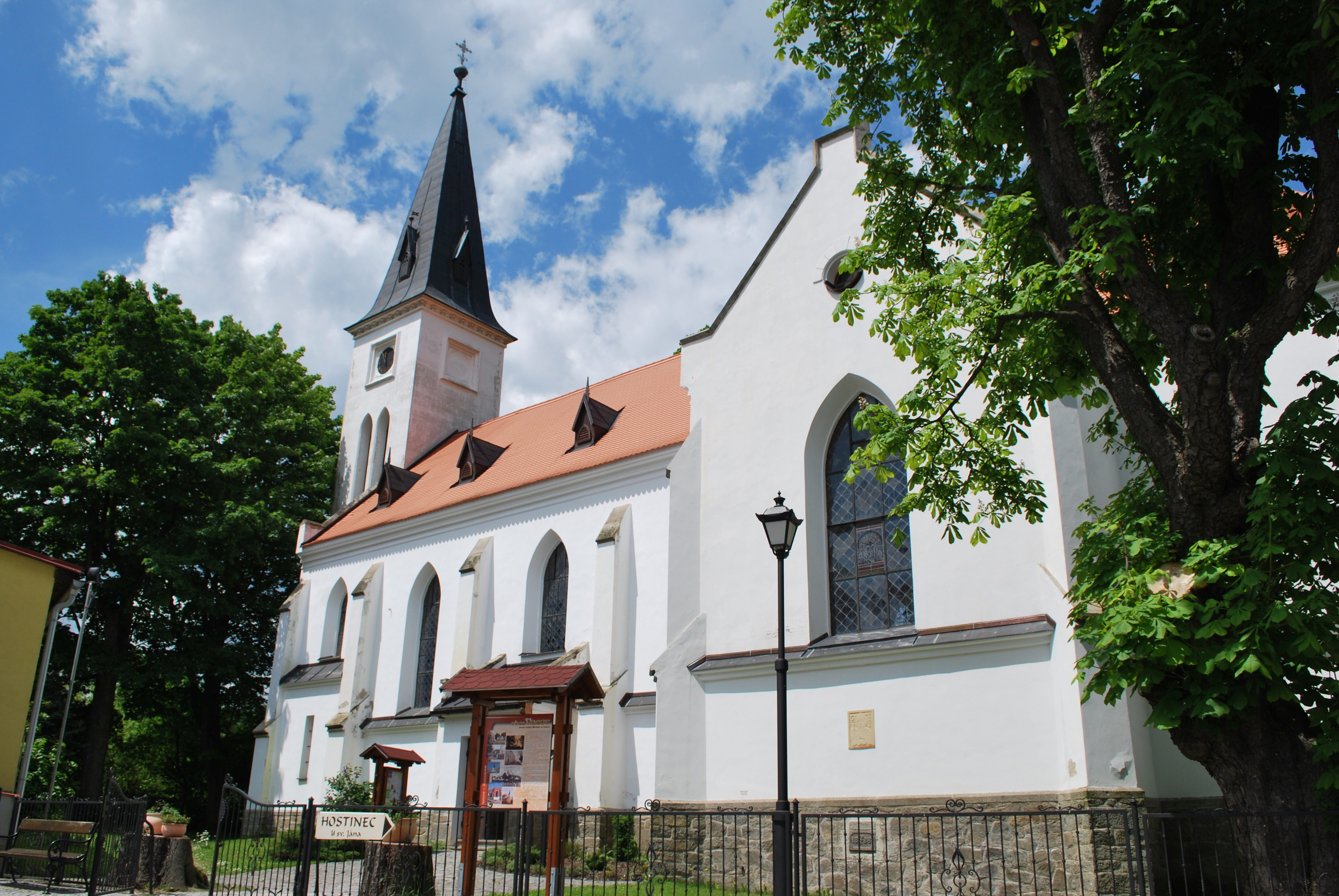 Vacov village in Prachatice District, Czech republic. Church This photograph was taken within the scope of the 'Czech Municipalities Photographs' grant.